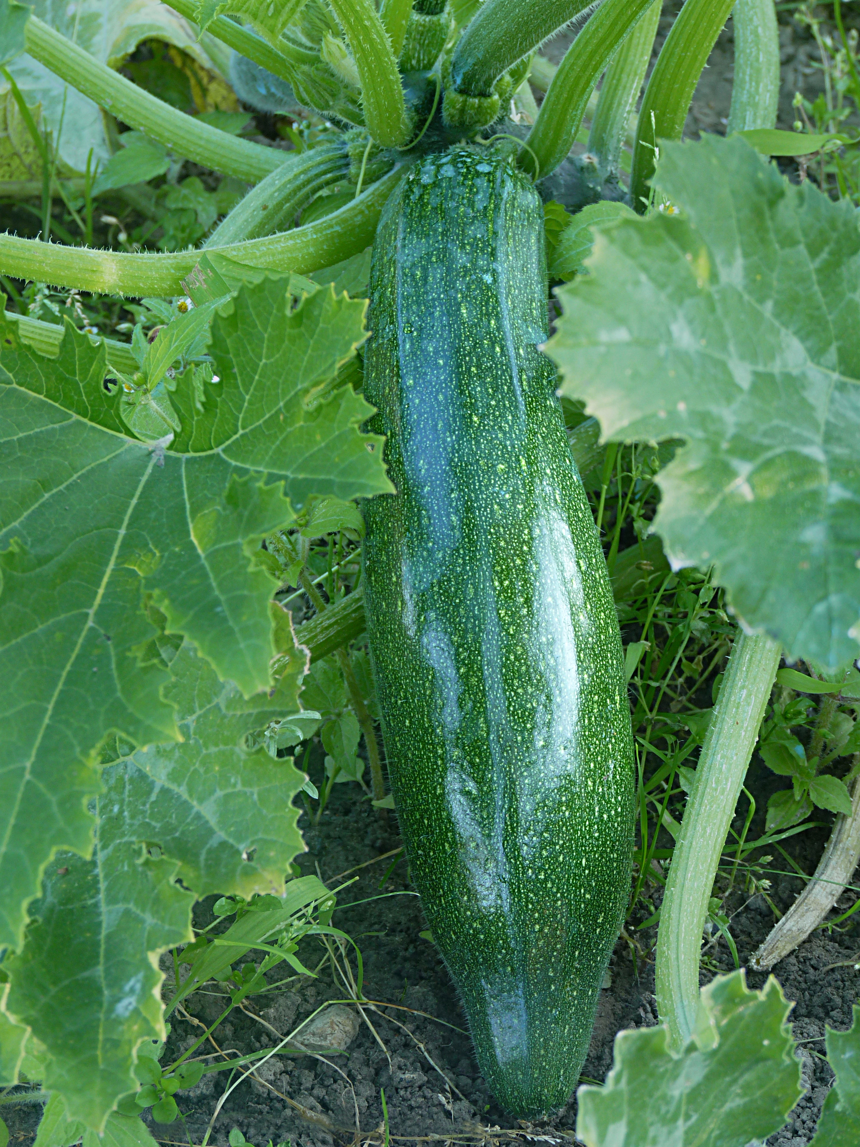 Courgette, in a vegetable garden in Belgium.